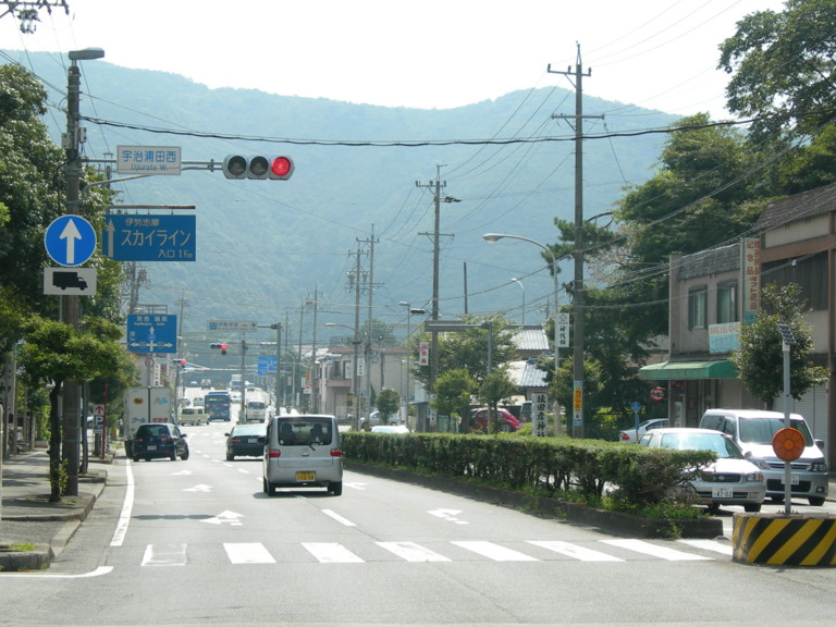 Mie prefectural route No.32, between Ise city and Shima city in Japan.